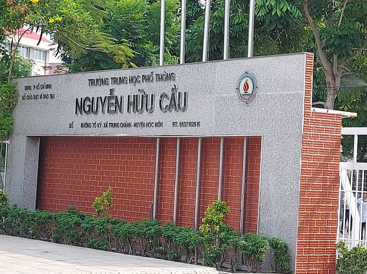 Nguyen huu cau school